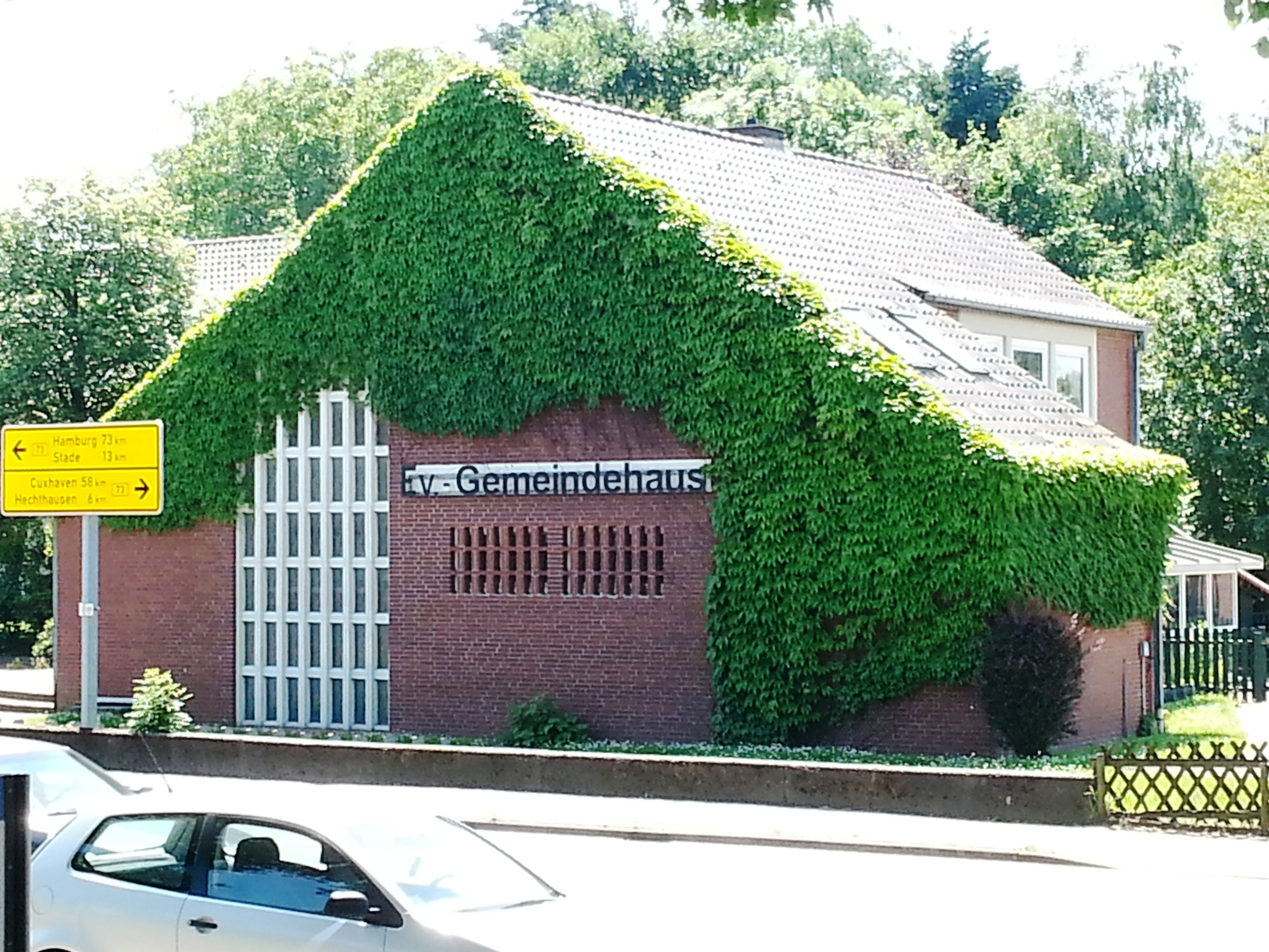 The Gemeindehaus (i.e. parish hall) of the Lutheran Himmelpforten congregation on Hauptstraße (federal route 73) in Himmelpforten.